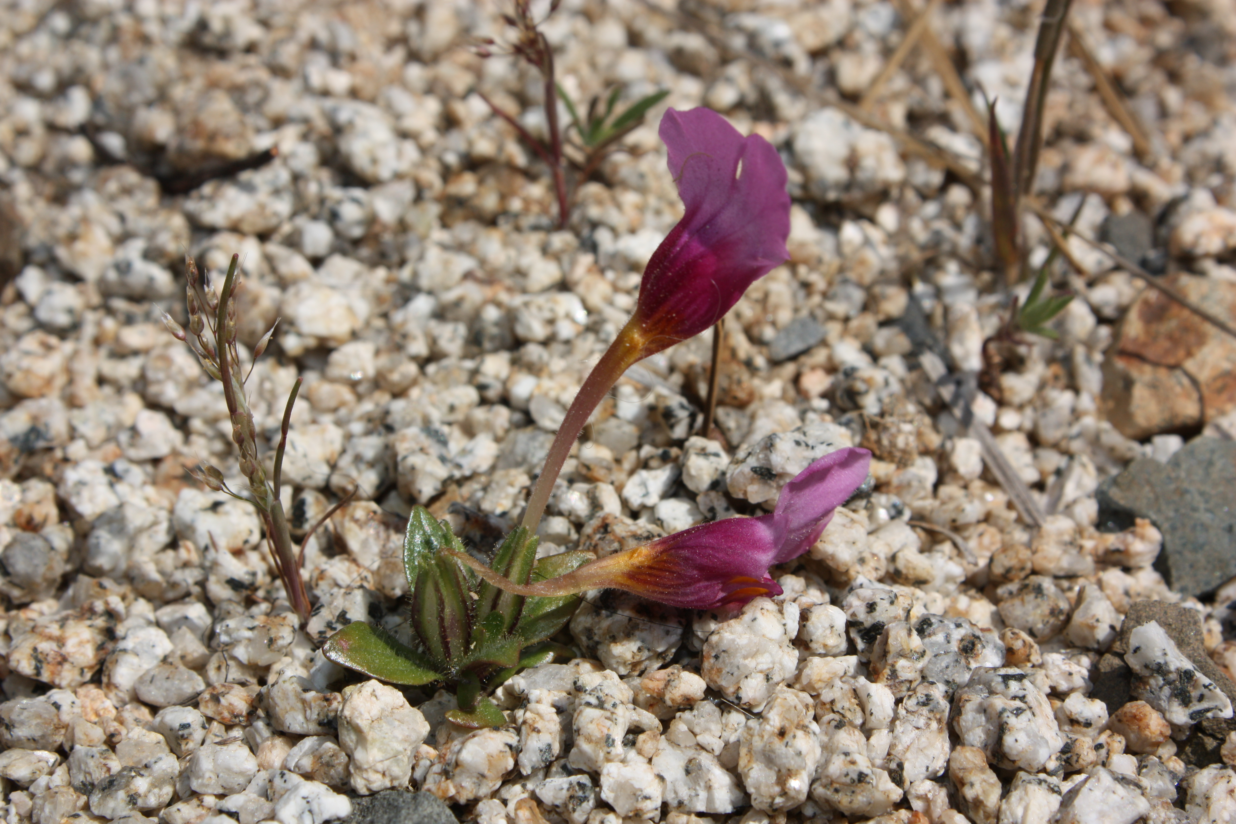 Brownies, Purple Mouse Ears Viewpoint location: Trail at Rough and Ready Flat Botanical Area Viewpoint elevation: 426 meter (1396 ft) Location source: Garmin GPSmap 60CSx Location Datum: WGS84